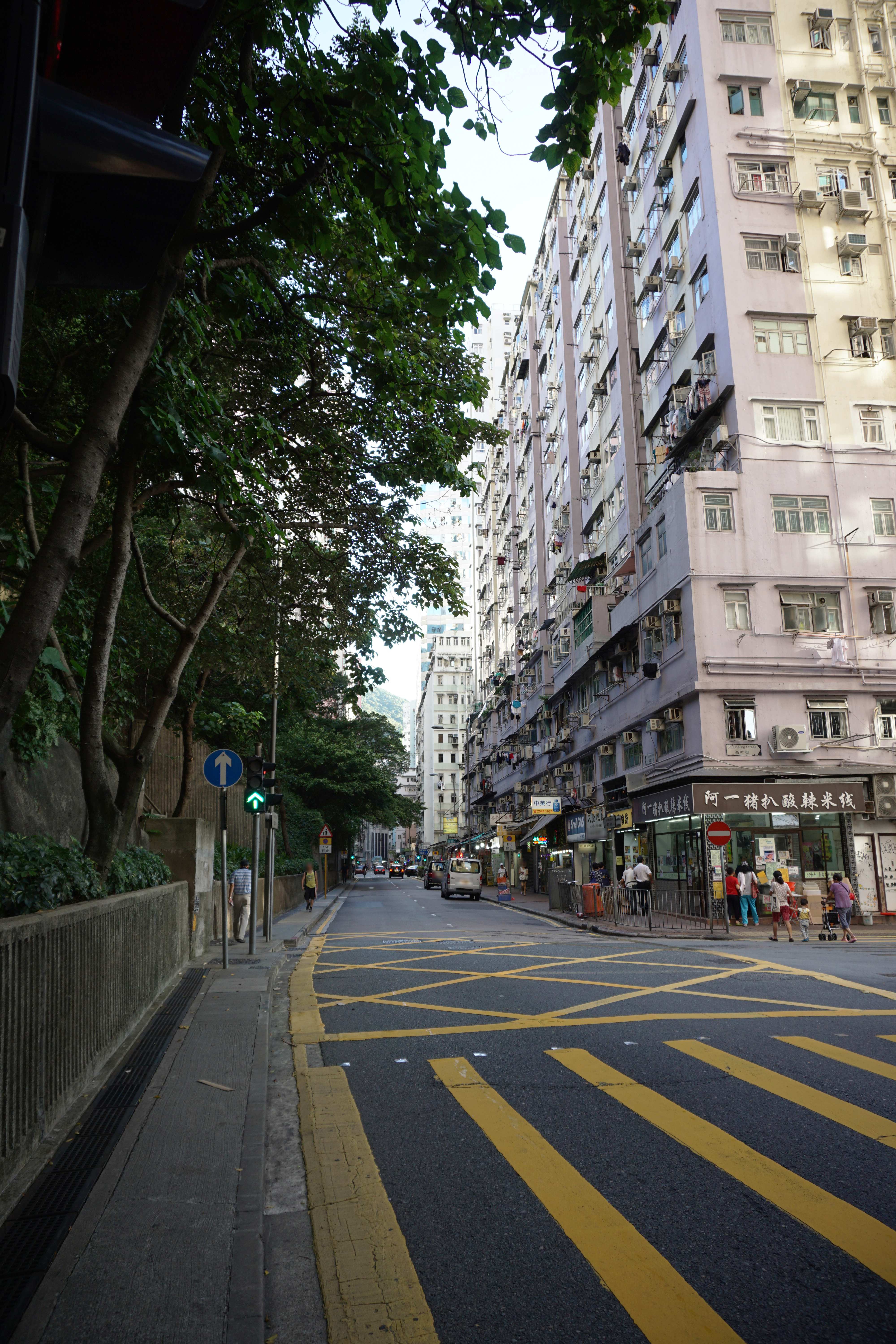 Belcher's Street in Shek Tong Tsui, Hong Kong.